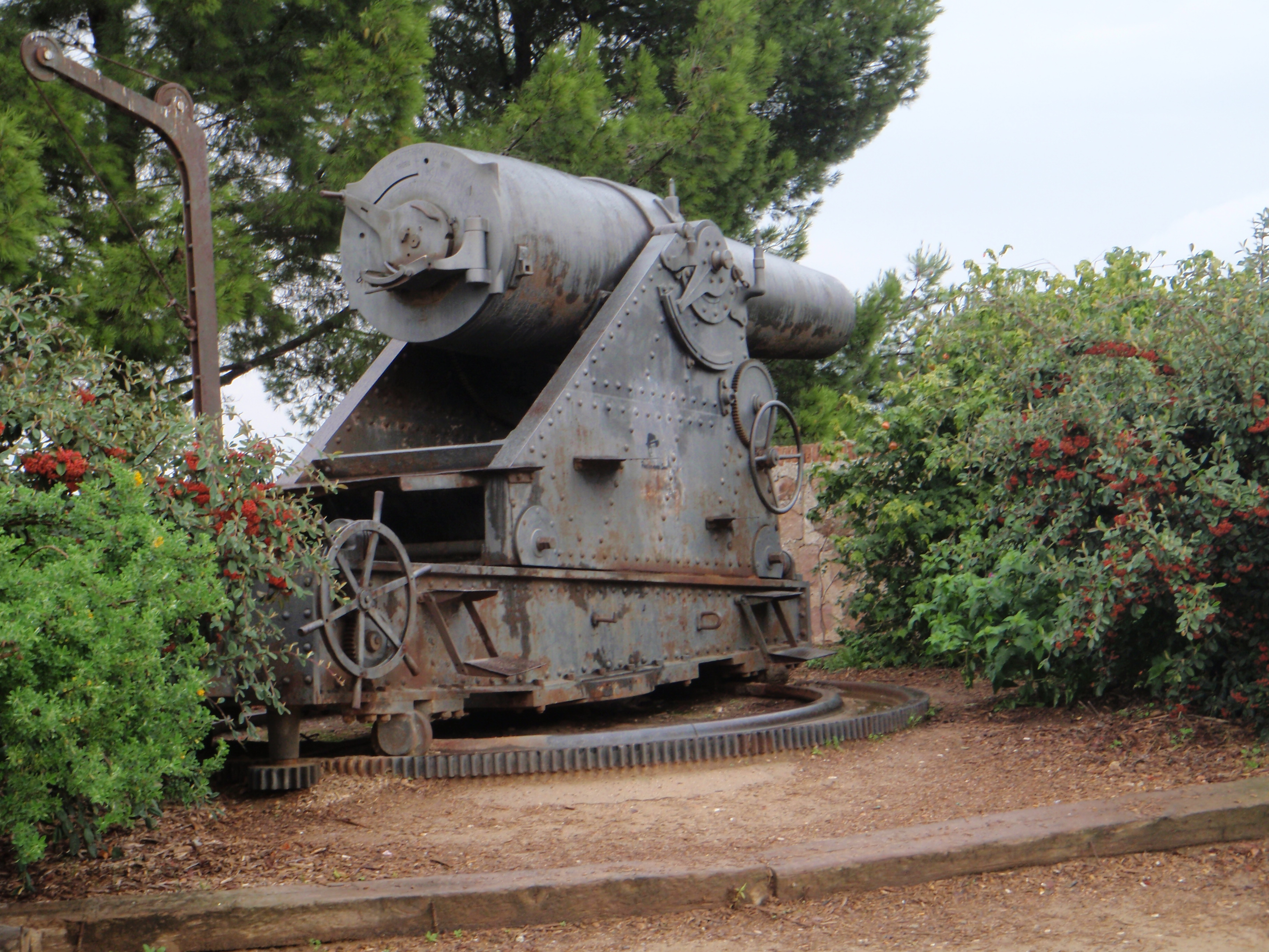 30.5 cm Model 1891 Coastal defence-cannon from the fortress on top of Montjuic, Barcelona